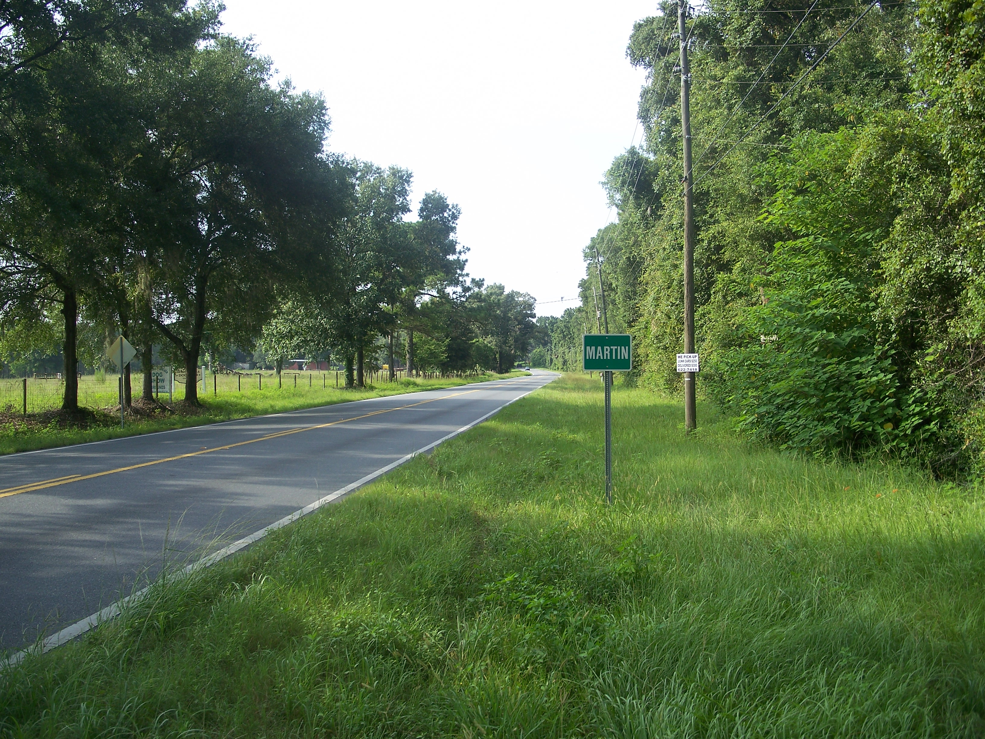 Martin, Florida: County Road 25A, going through the town.